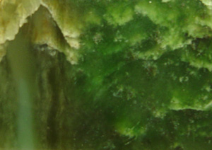 Detail of a polished slab of bowenite serpentine, showing typical cloudy white patches and veining.